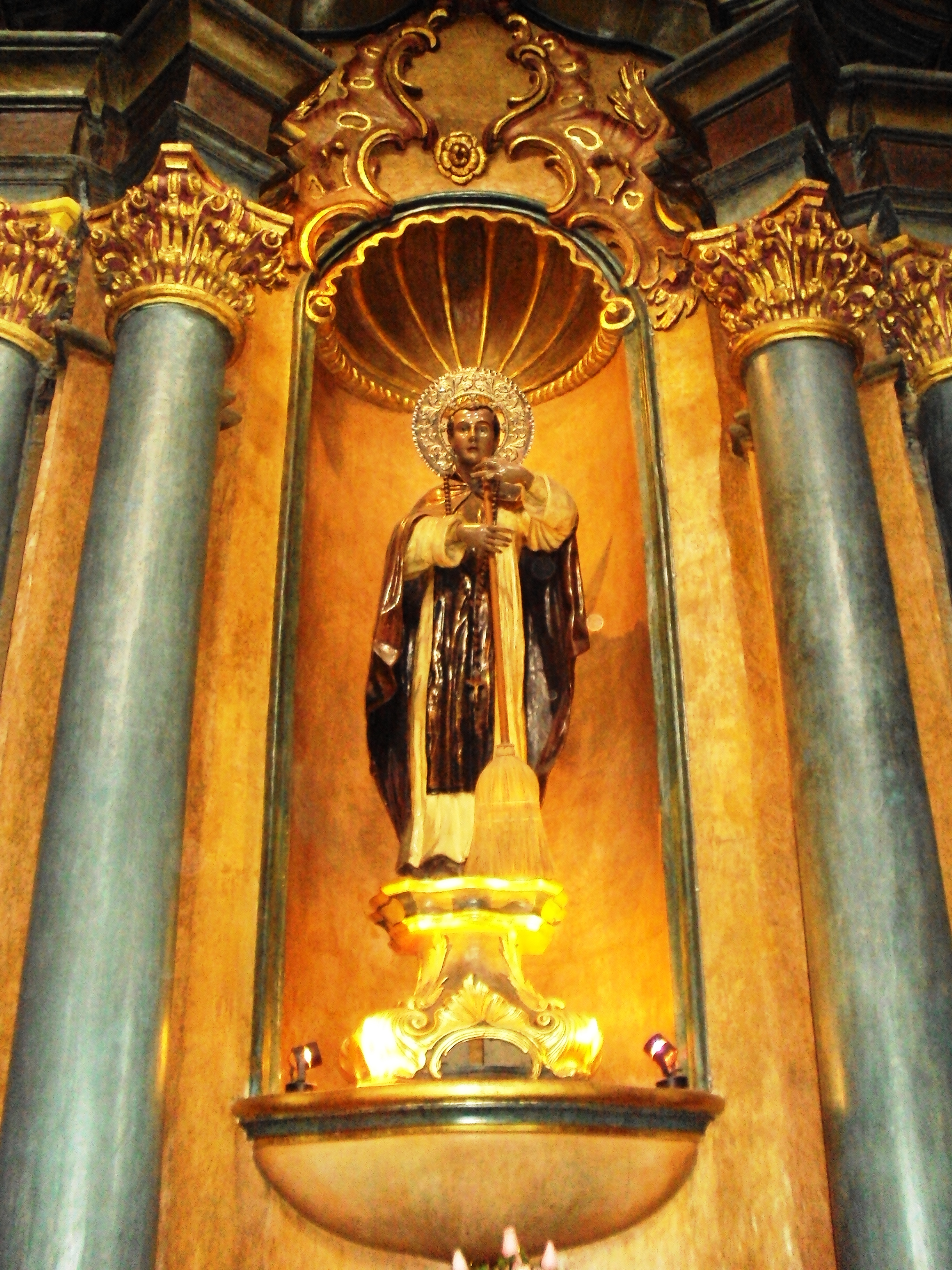 Altar of St. Martin de Porras in Sanctuary of Las Nazarenas in Lima, Peru.